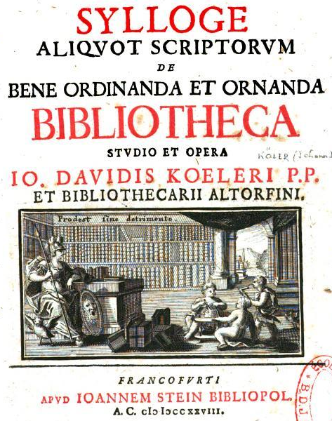 Title page of Kohler's "Sylloge aliquot scriptorum de bene ordinanda bibliotheca, studio et opera"